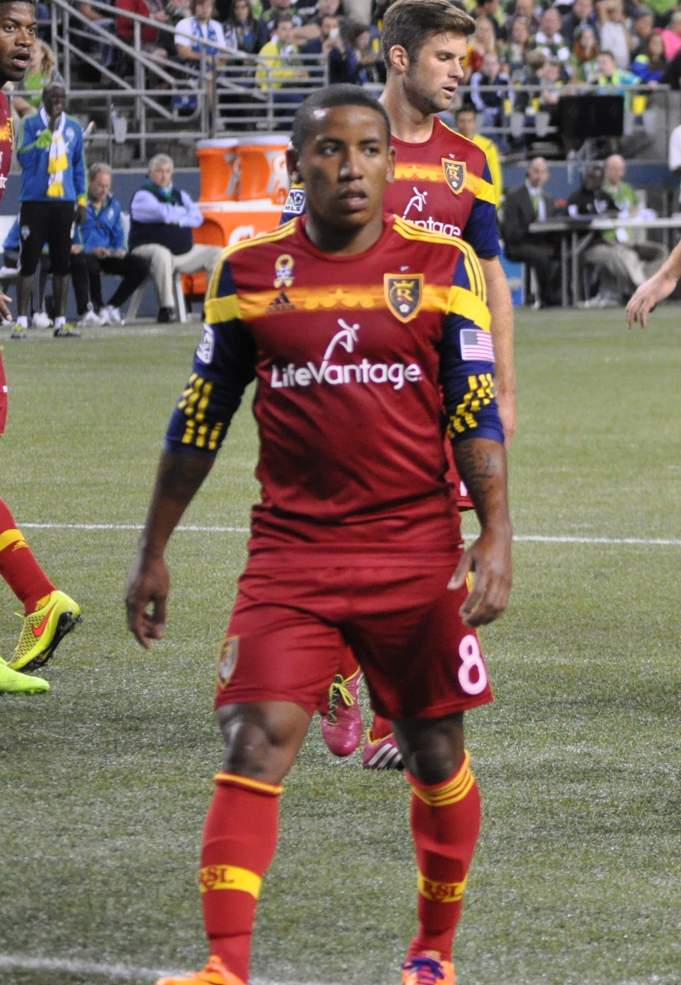 Seattle Sounders and Real Salt Lake players preparing for a restart of play on September 12, 2014 in Seattle, WA.